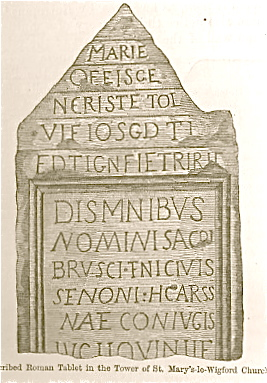 Tombstone of Sacer, son of Bruscus, a citizen of the Senones, set into the church tower of St Mary Le Wigford, Lincoln